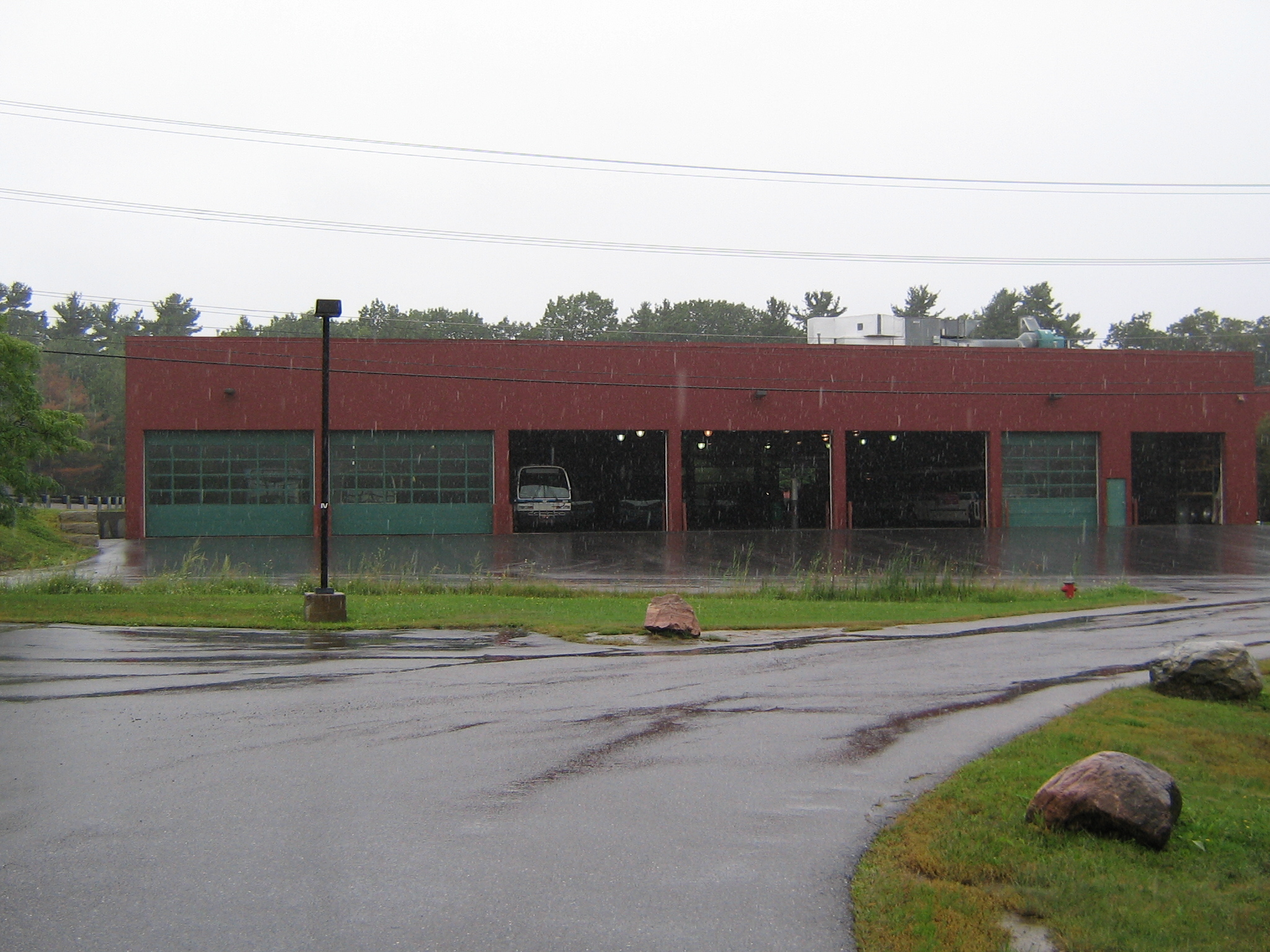 Maintenance facility for CCTA